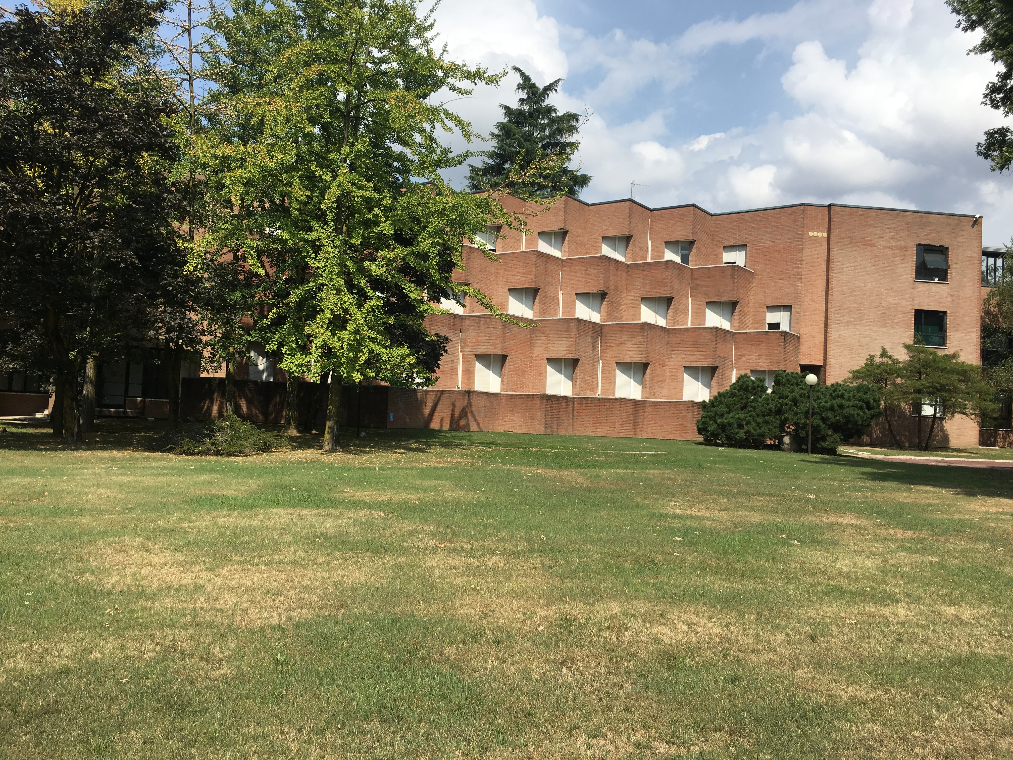 Details of the dorms - Collegio di Milano